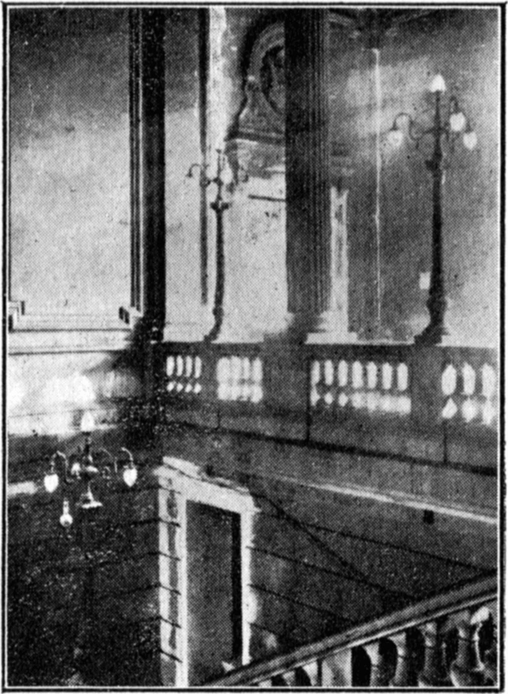 Escalier, Aubette, Strasbourg, before transformation.